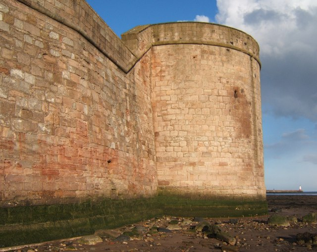 Coxon's Tower at low tide Looking up at Coxon's Tower from the shore at low tide. The lighthouse at the end of the pier is visible in the distance.